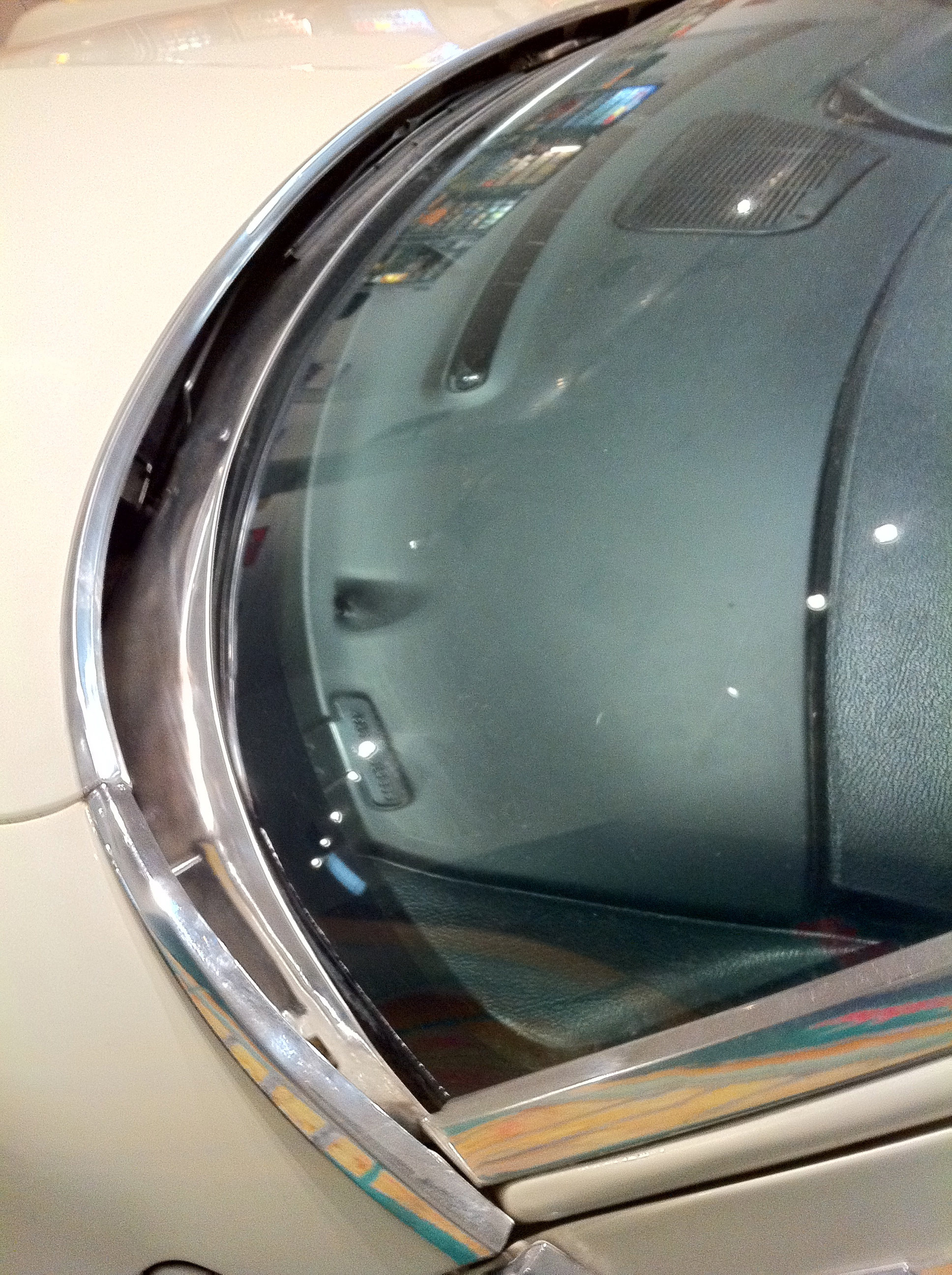 1975 AMC Pacer X coupe, by American Motors Corporation. Detail of the hidden wimdshield wiper design. One of the cars in the permanent collection at the Antique Automobile Club of America Museum, located in Hershey, Pennsylvania. The AACA is premier car club in the world focused on antique cars, trucks, motorcyles, and their history.